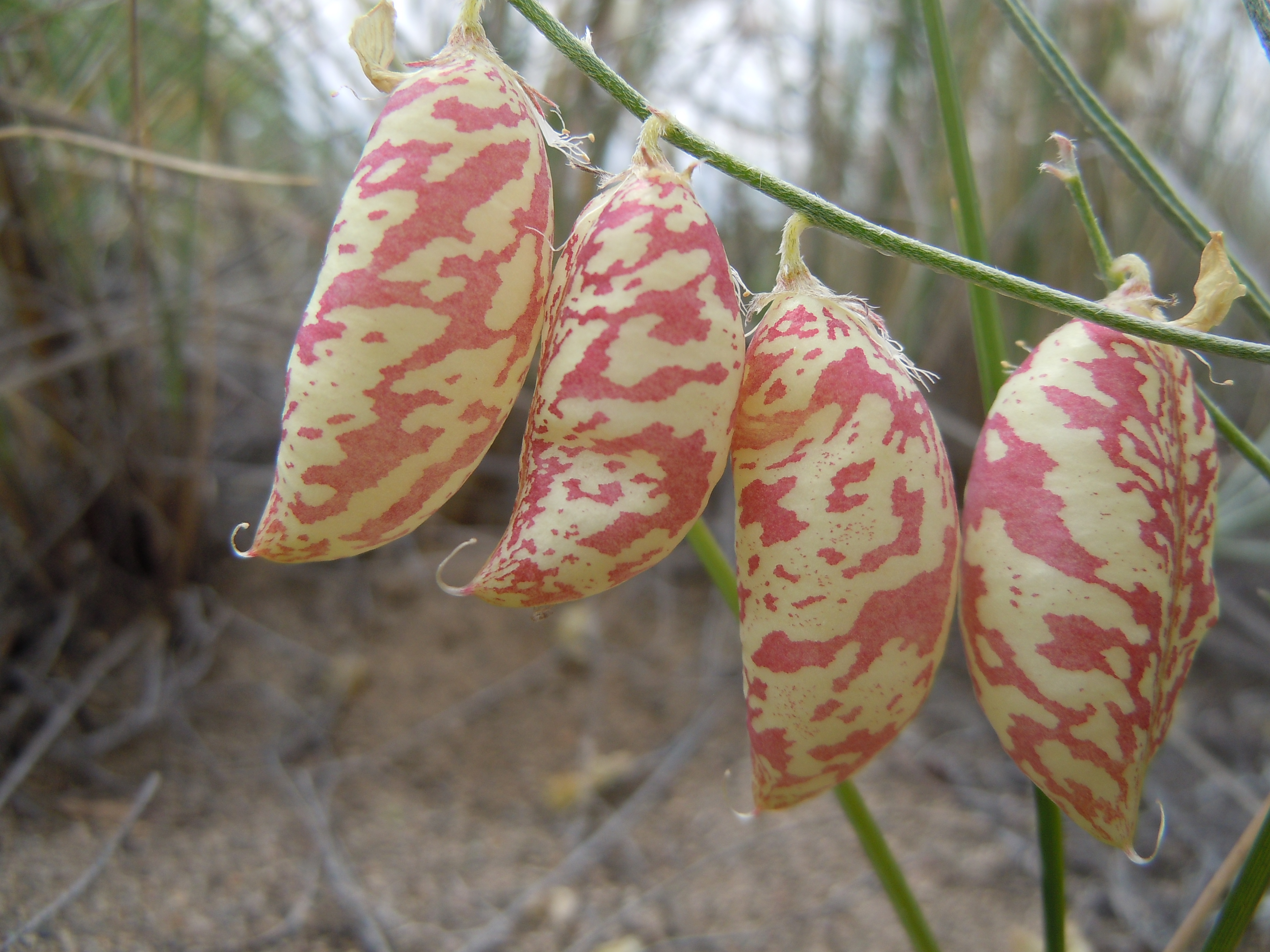 The mottled inflated pods combined with grass-like leaflets render this milkvetch morphologically very distinctive.